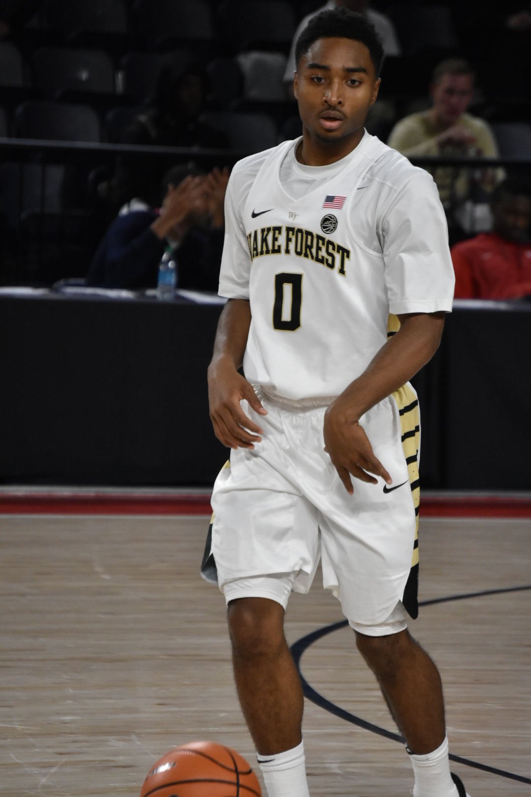 Game # 4 of the 2017 Paradise Jam featured the Wake Forest Demon Deacons and the Drake Bulldogs